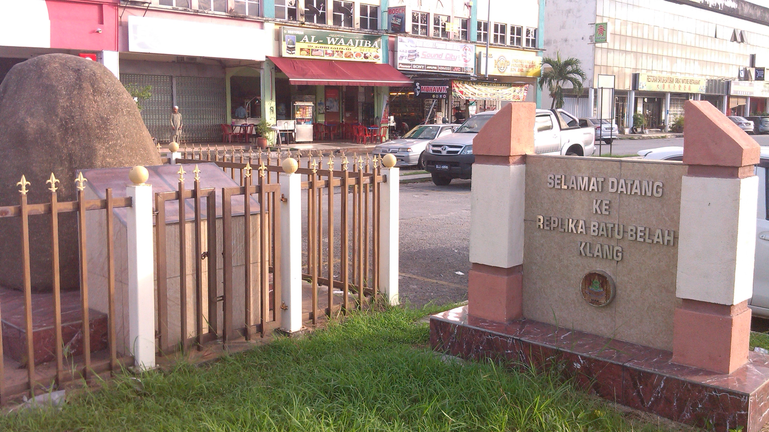 A Replica of 'Batu Belah' erected by MPK to commemorate the legendary rock.